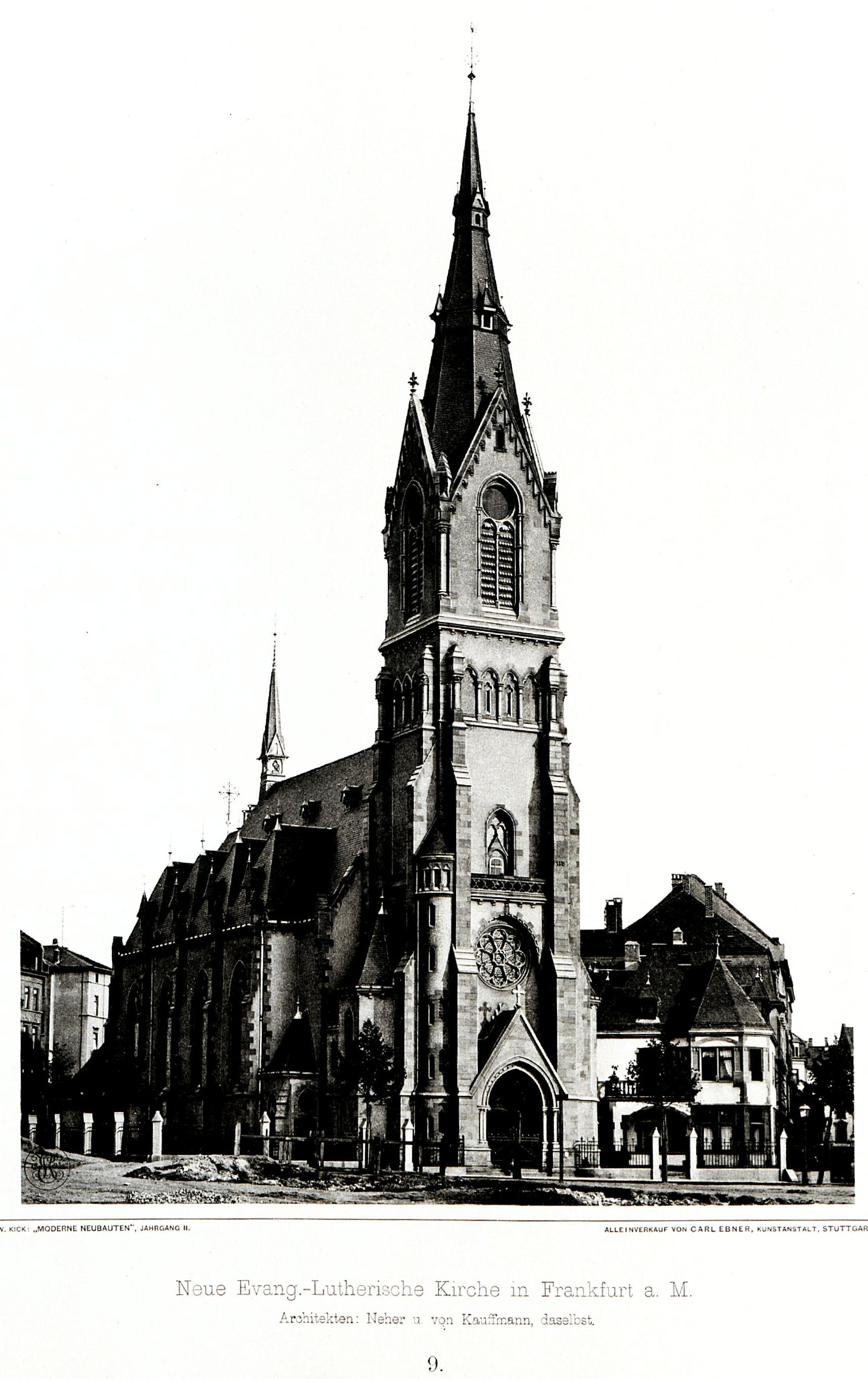 t